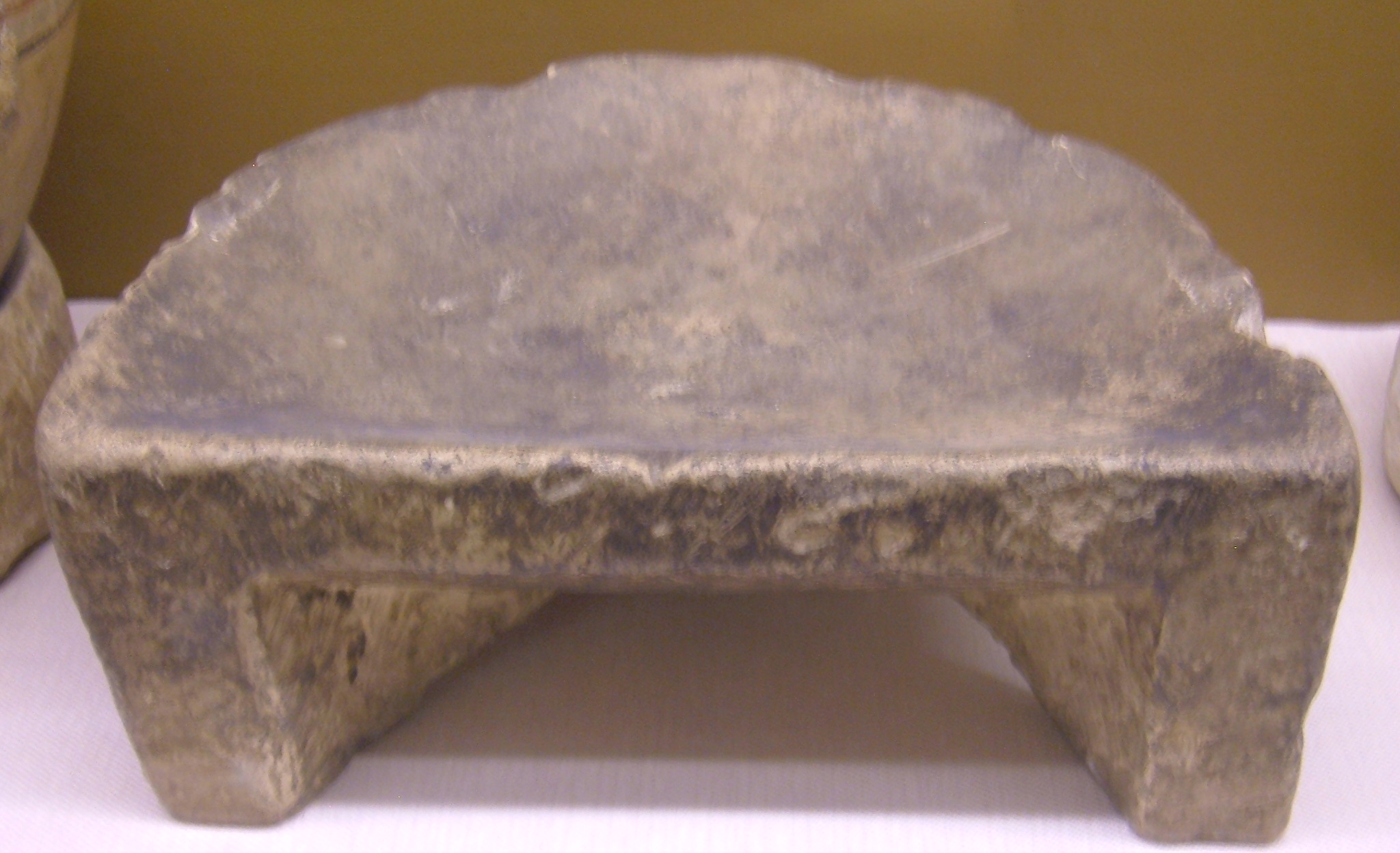 An 18th Dynasty stone chair from Amarna on display at the Rosicrucian Egyptian Museum in San Jose, California. RC 451